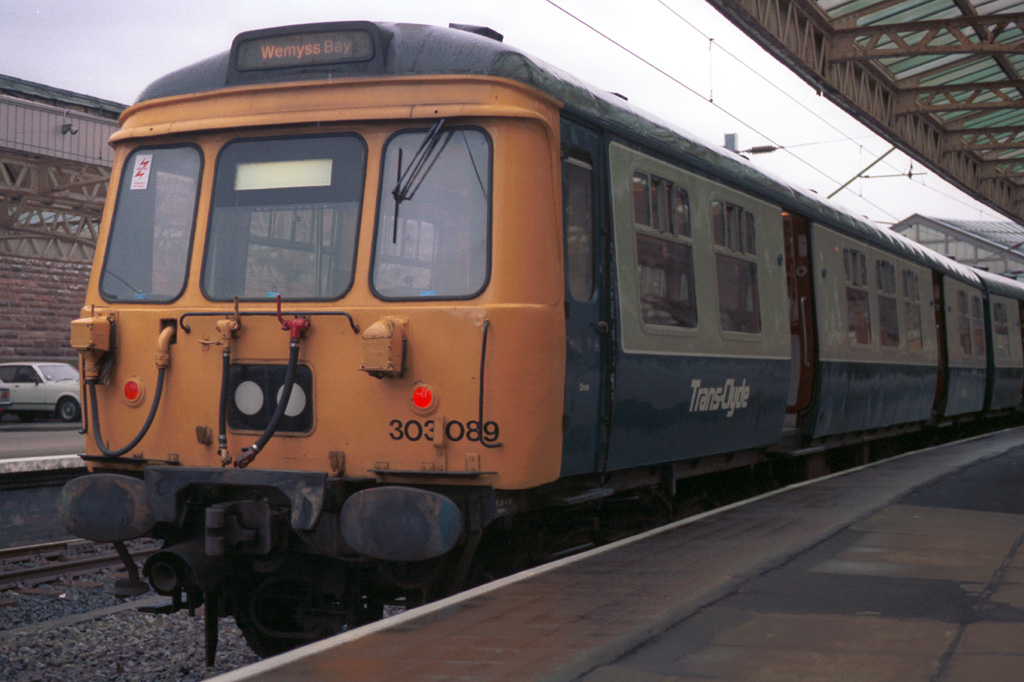 British Rail Class 303 at Wemyss Bay railway station with Transclyde markings in Wemyss Bay, North Ayrshire, Scotland. Photo by Pencefn, taken April 1984.